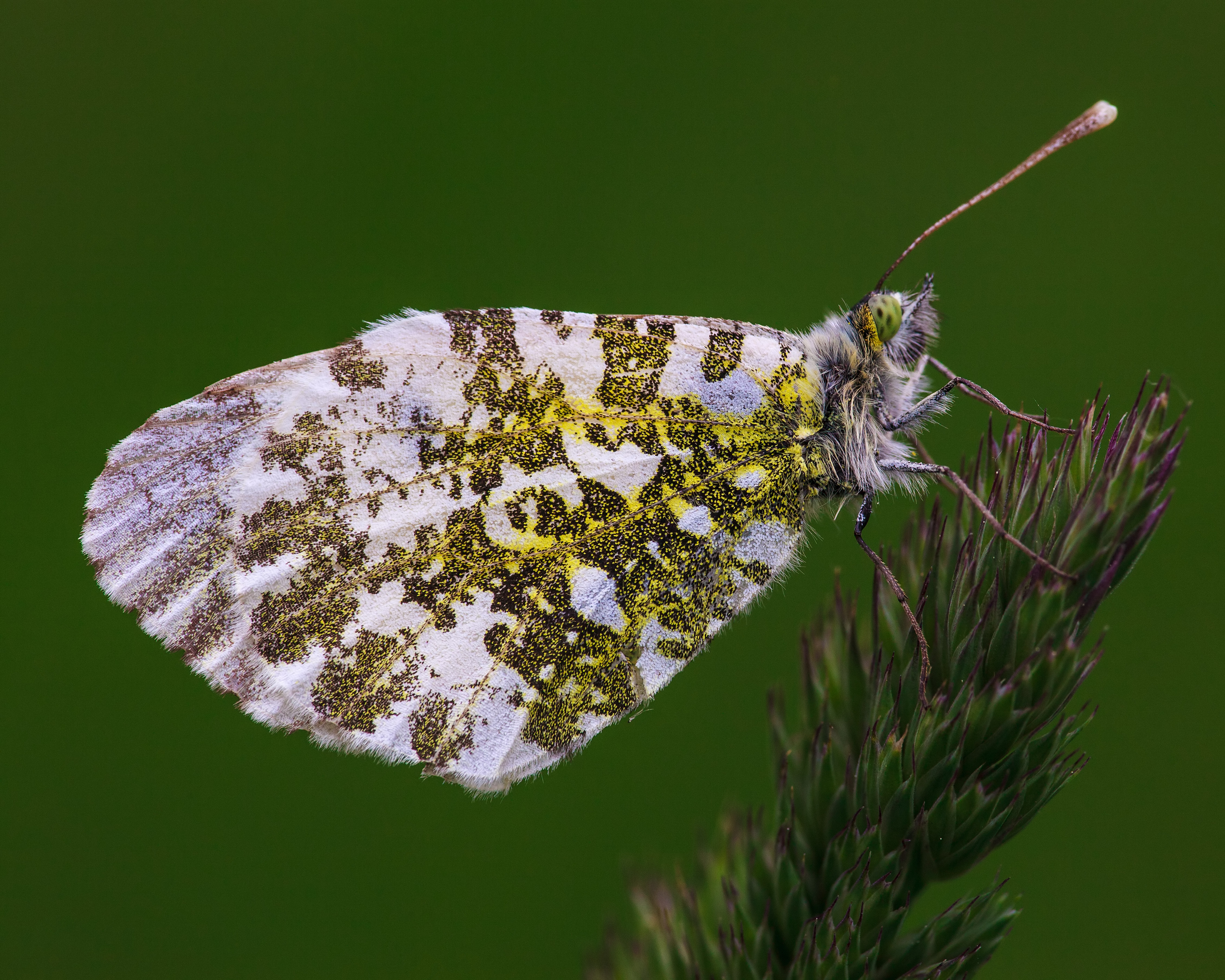 Anthocharis cardamines female